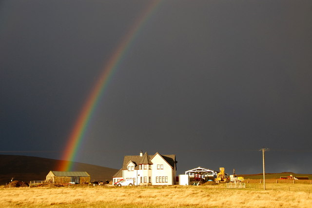 House with rainbow, Orphir New house and a new barn on the A964 near Orphir Village. I wonder what's in the shed on the left though?